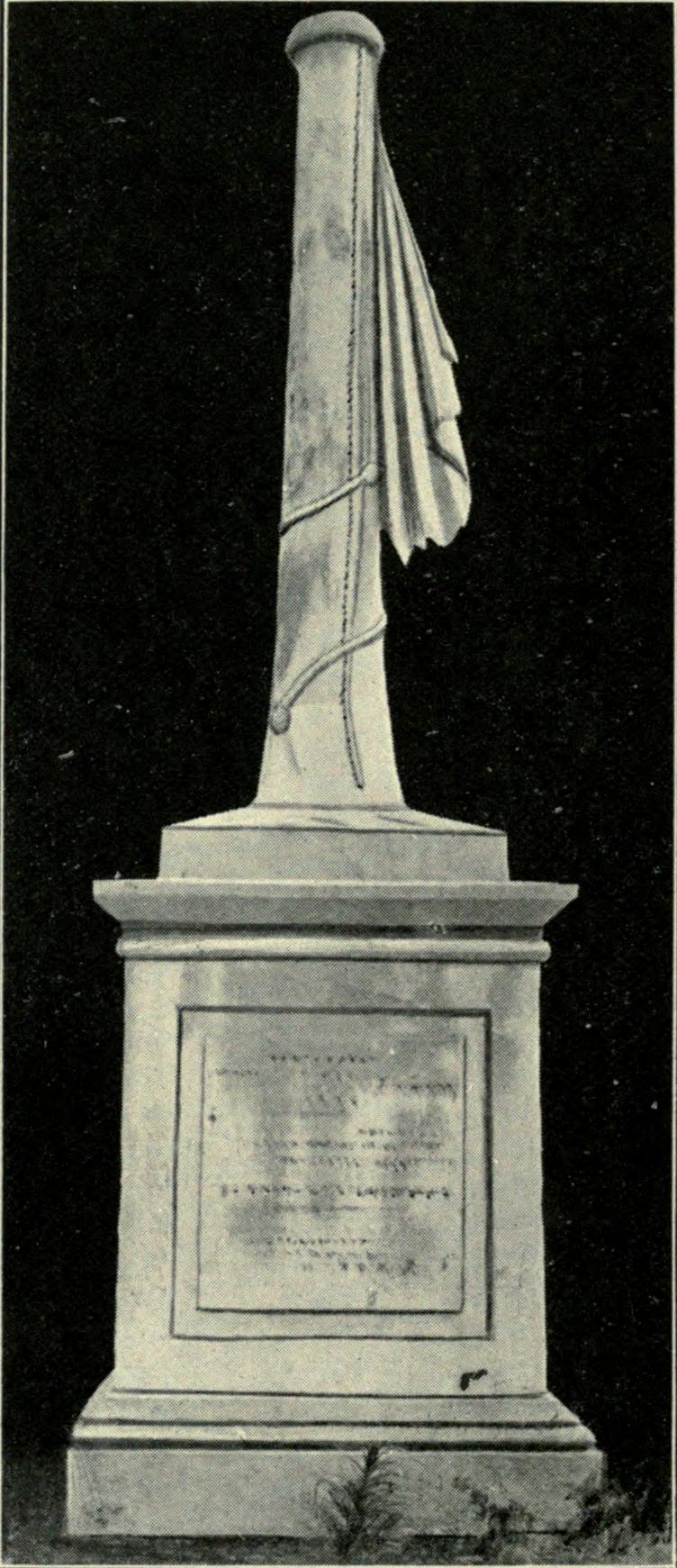 Monument to Sir Charles Paget above his grave in the naval and military cemetery in Ireland Island, Bermuda.